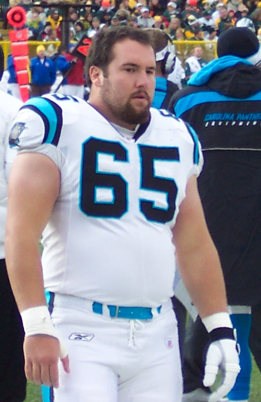 Carolina Panthers center Ryan Kalil during an away game against the Green Bay Packers in 2007.